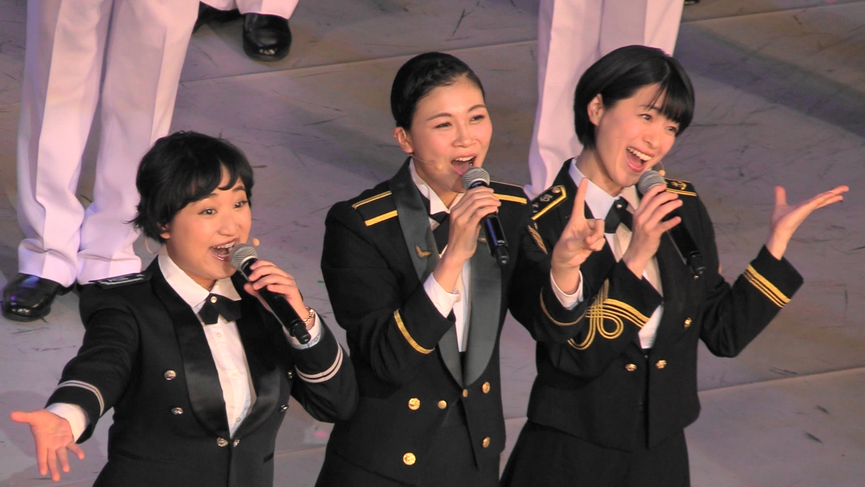 Japanese female military singers performing at the Japan Self-Defense Forces Marching Festival 2017 in Nippon Budōkan. PO3 MIYAKE Yukari of the JMSDF Tokyo Band (right), LPT MATSUNAGA Michiko of the JGSDF Central Band (center) and A3C MORITA Saki of the JASDF Central Band (left).